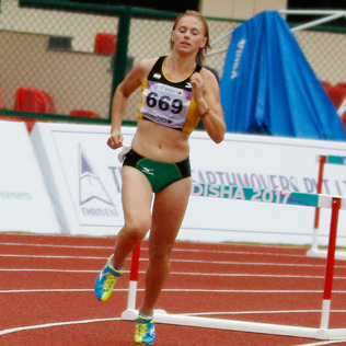 from the 22nd Asian Games in Odisha. 2017 Asian Athletics Championships. 6 to 9 July 2017 at the Kalinga Stadium in Bhubaneswar 3 Kristina Pronzhenko 699 TAJIKISTAN 4 Manami Kira 402 JAPAN 5 Arpitha M. 278 INDIA 6 Merjen Ishangulyyeva 462 KAZAKHSTAN 7 Chui Ling Goh 665 SINGAPORE 8 Jutamas Khonkham 715 THAILAND